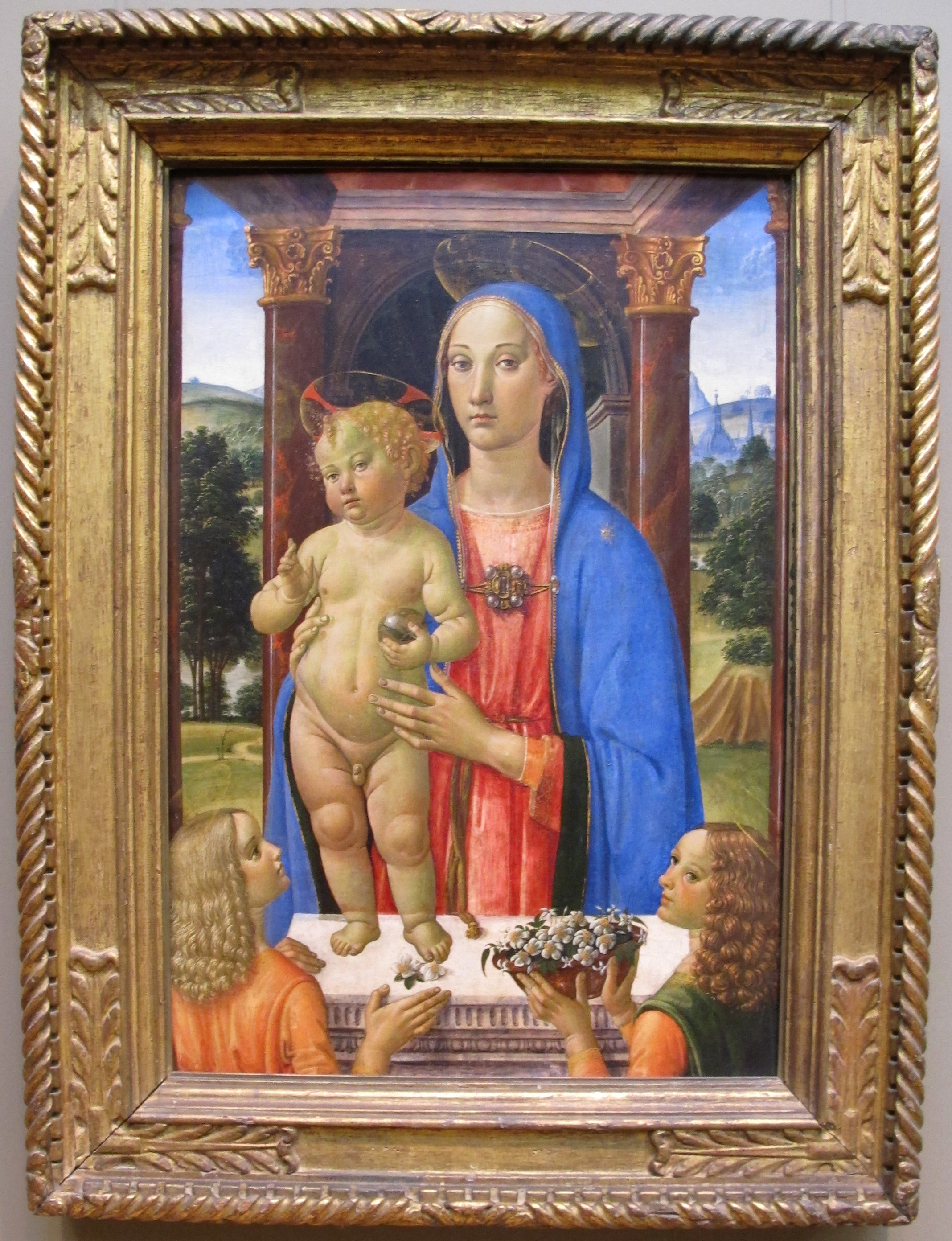 Paintings of the Italian Renaissance in the Metropolitan Museum of Art